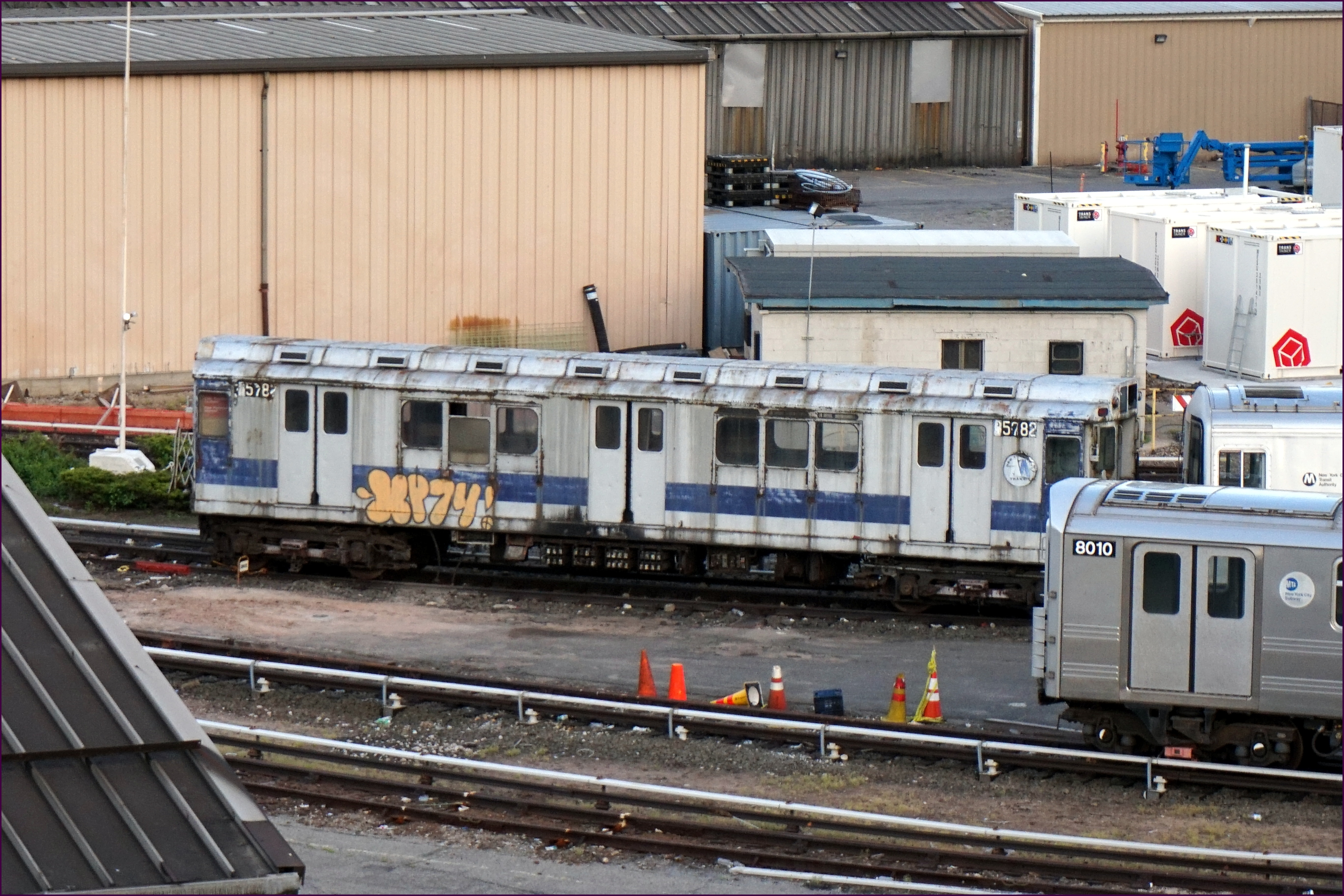 Inwood and Washington Heights